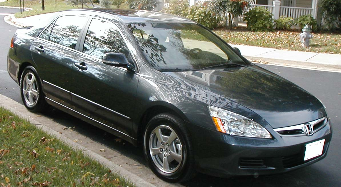 2006-2007 Honda Accord Hybrid photographed in USA.